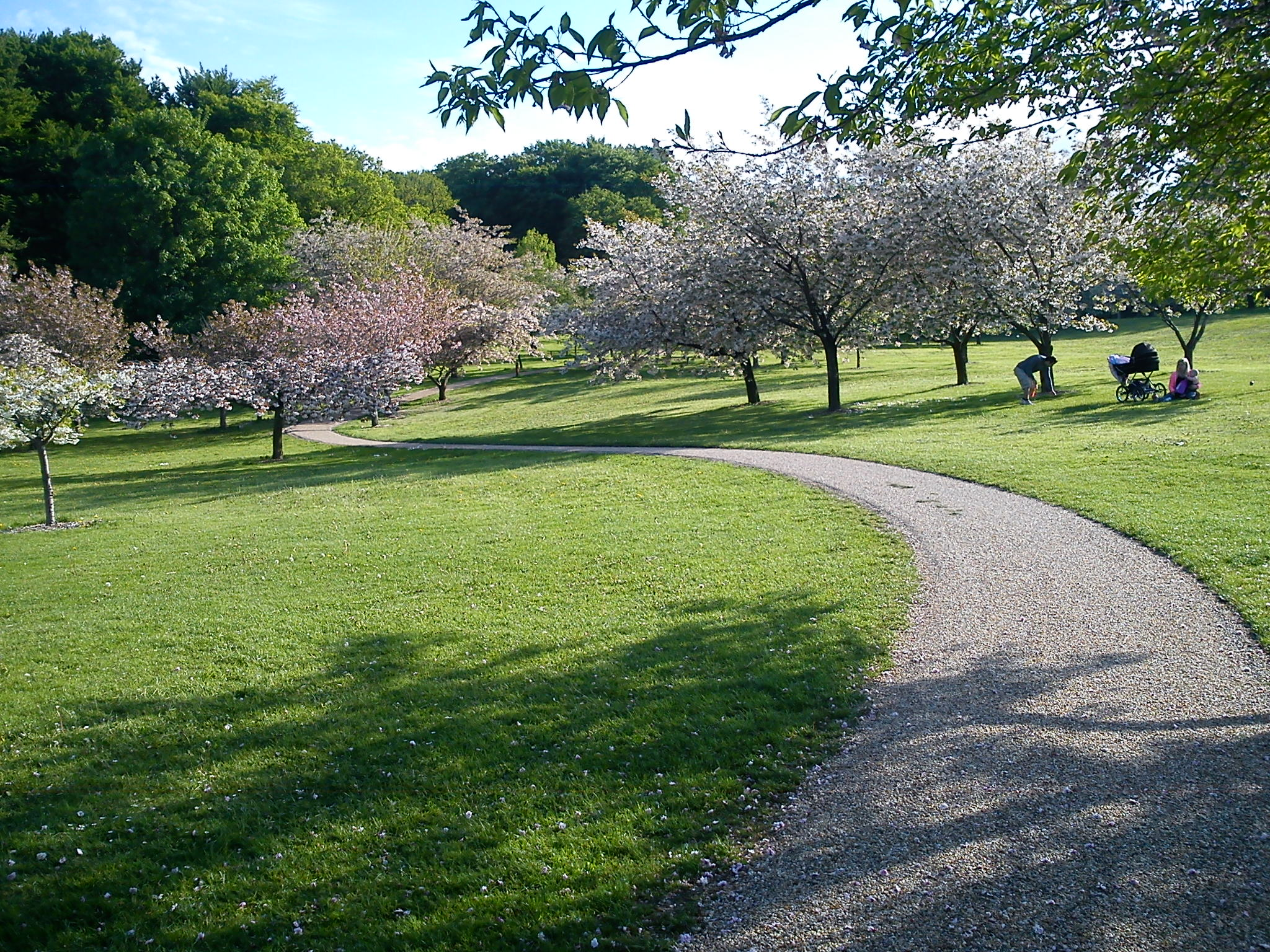 Flowering Japanese cherry trees in Mindeparken